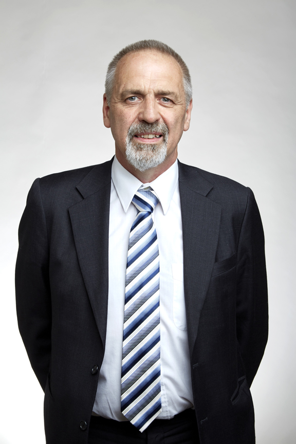 John Roger Speakman is a British biologist working at the University of Aberdeen Attribution: The Royal Society